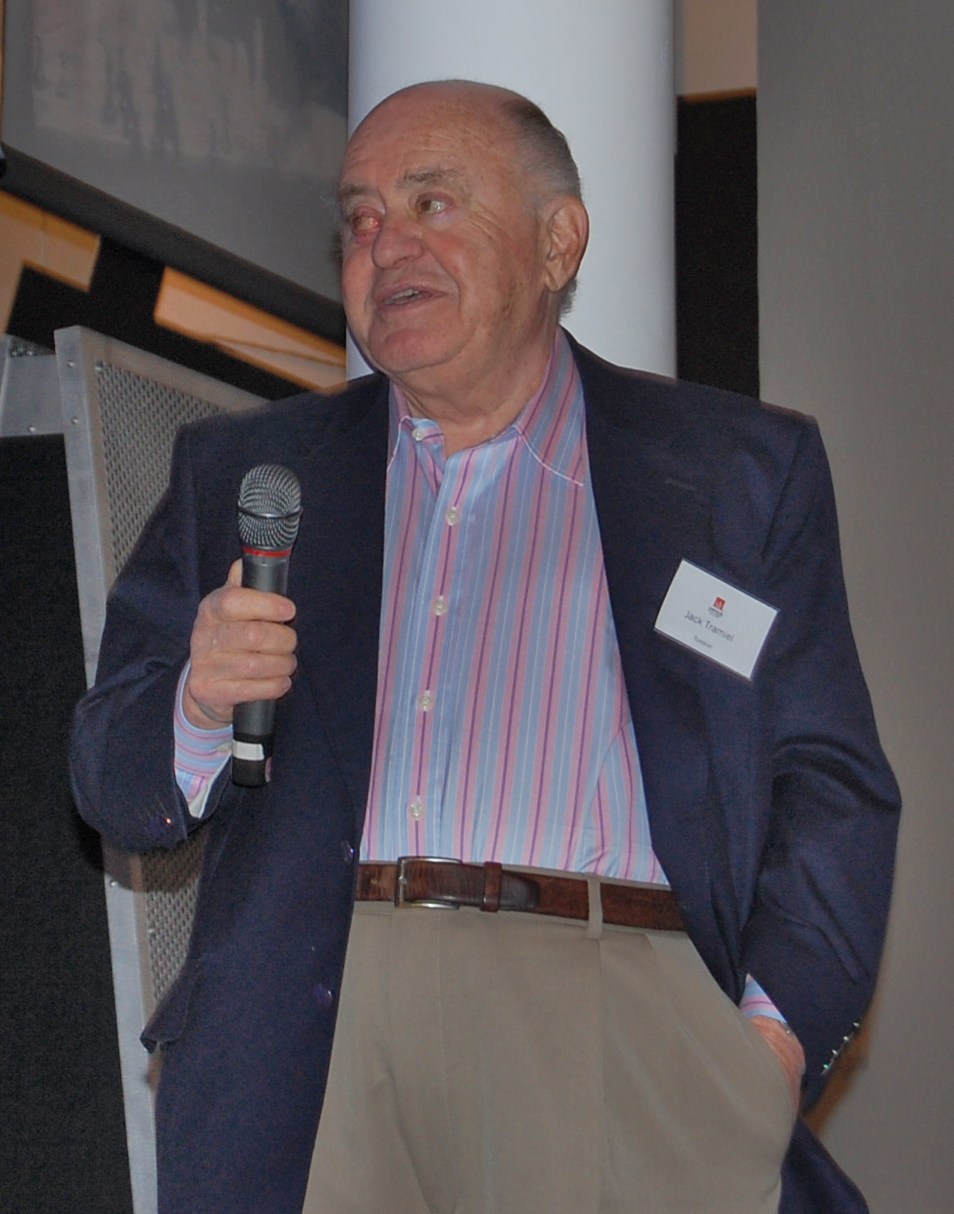 Jack Tramiel founder of Commodore International, speaking at the C64 25th Anniversary.